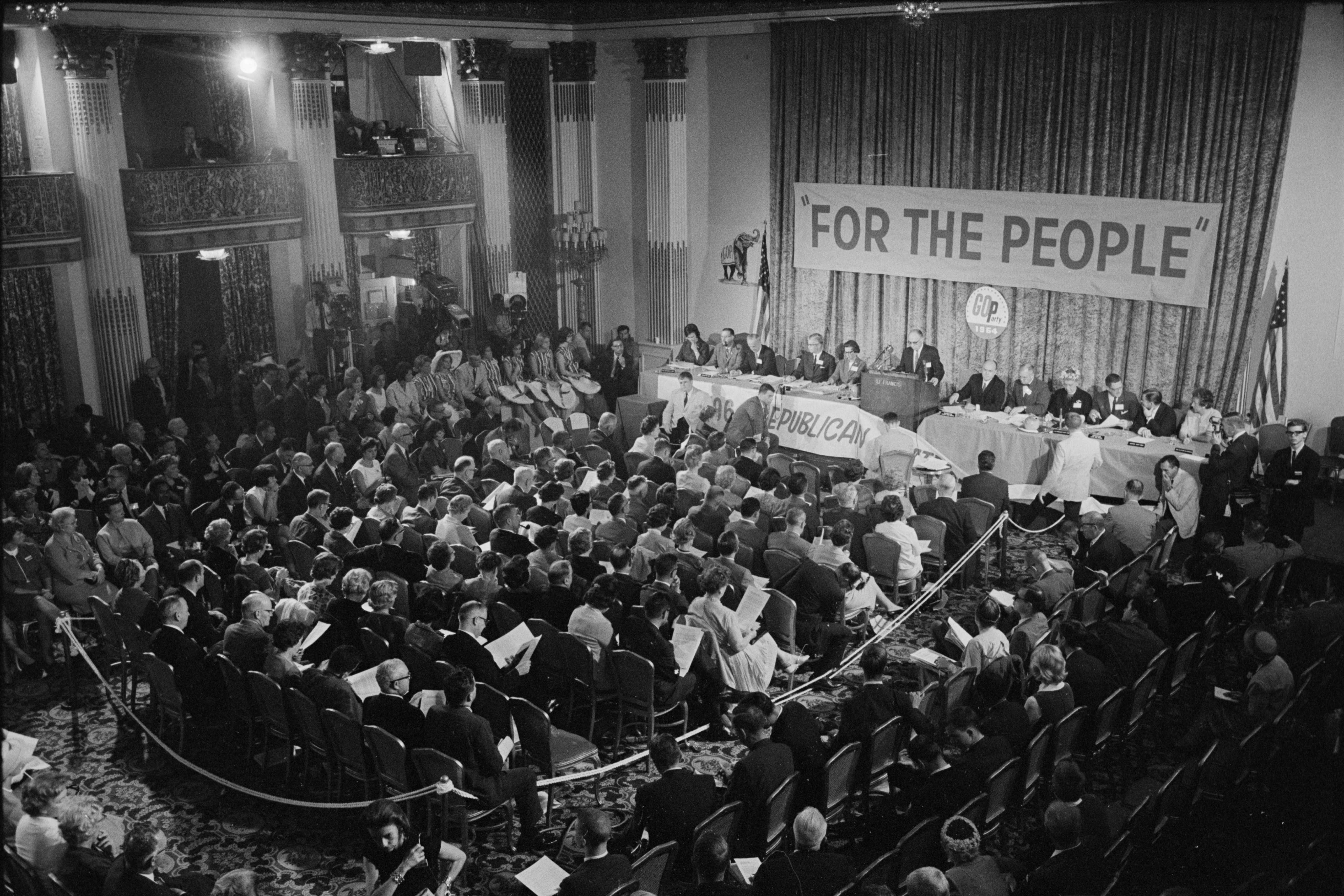 1964 Republican National Convention Platform Committee